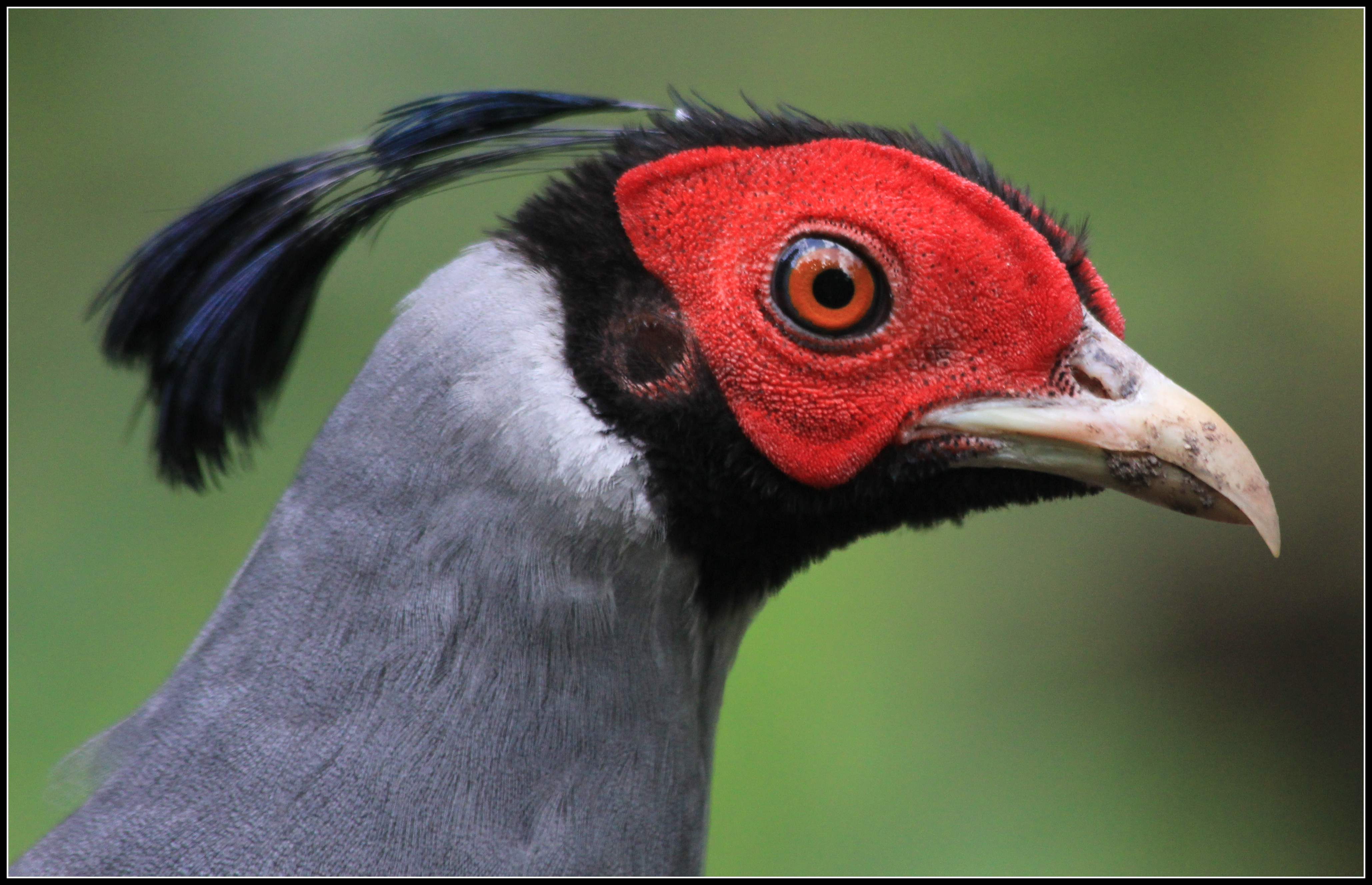 lophura diardi Siamese Fireback in captivity in Florida